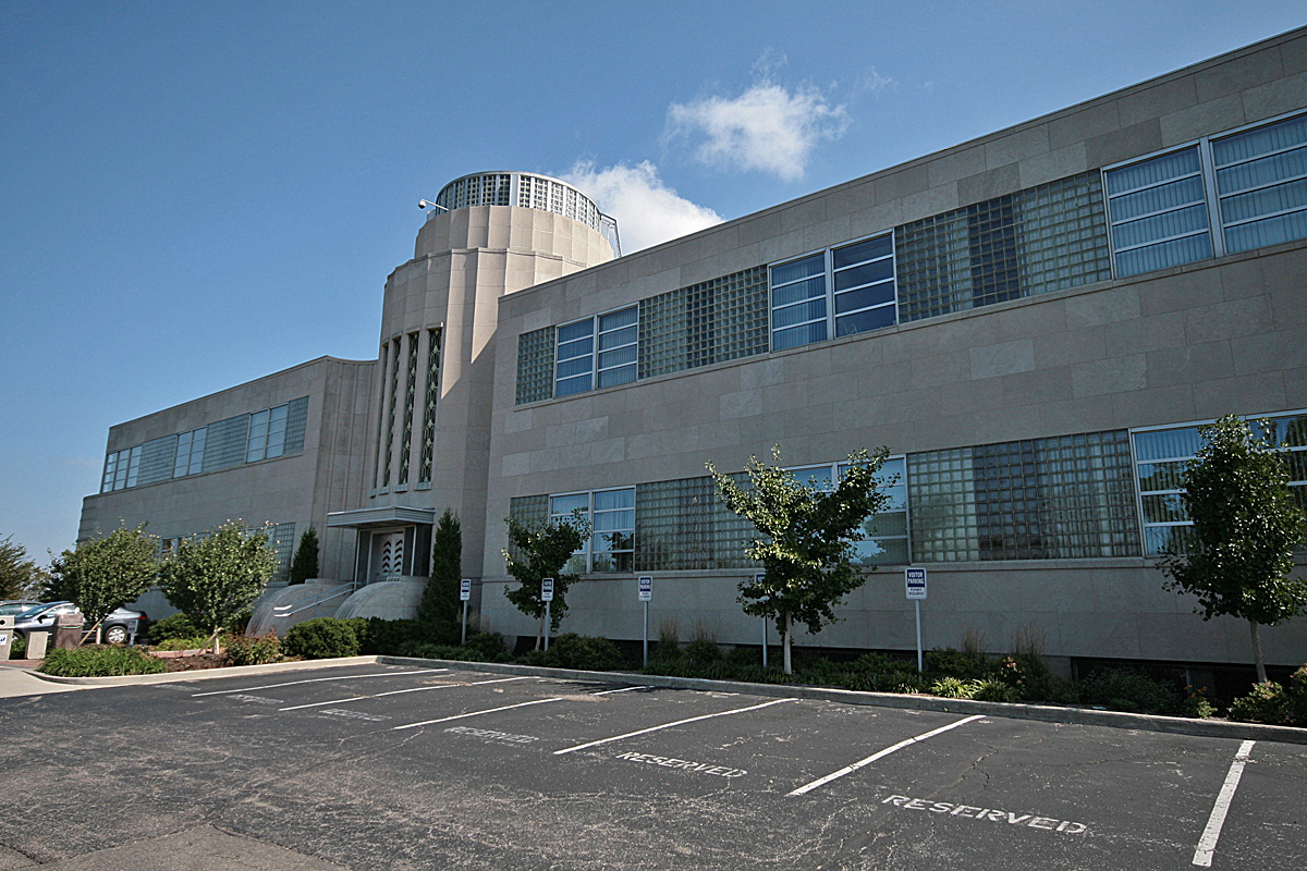 Coca cola bottling building in Cincinnati, OH. Currently used by Xavier University. Photo by Greg Hume.